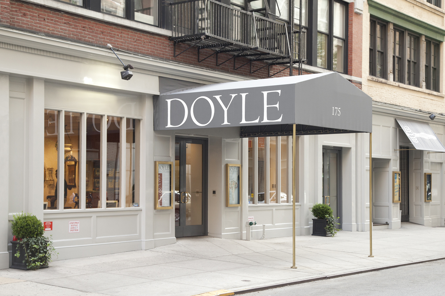 Doyle New York, Auctioneers & Appraisers, Gallery Facade Fall 2014